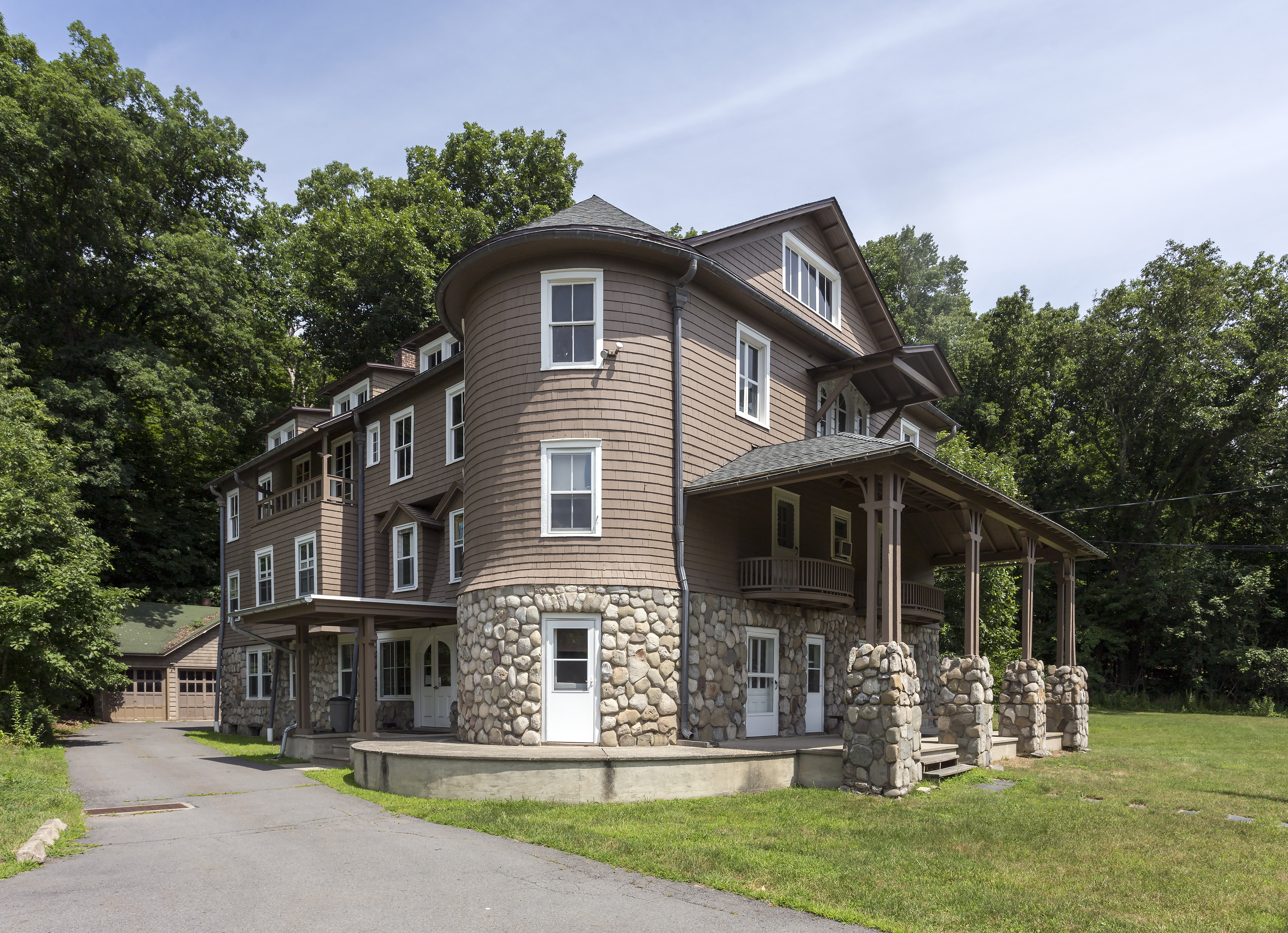 "Arisbe", the Charles S. Peirce house near Milford, Pennsylvania, USA. It houses the Research and Resource Planning Division of Delaware Water Gap National Recreation Area.